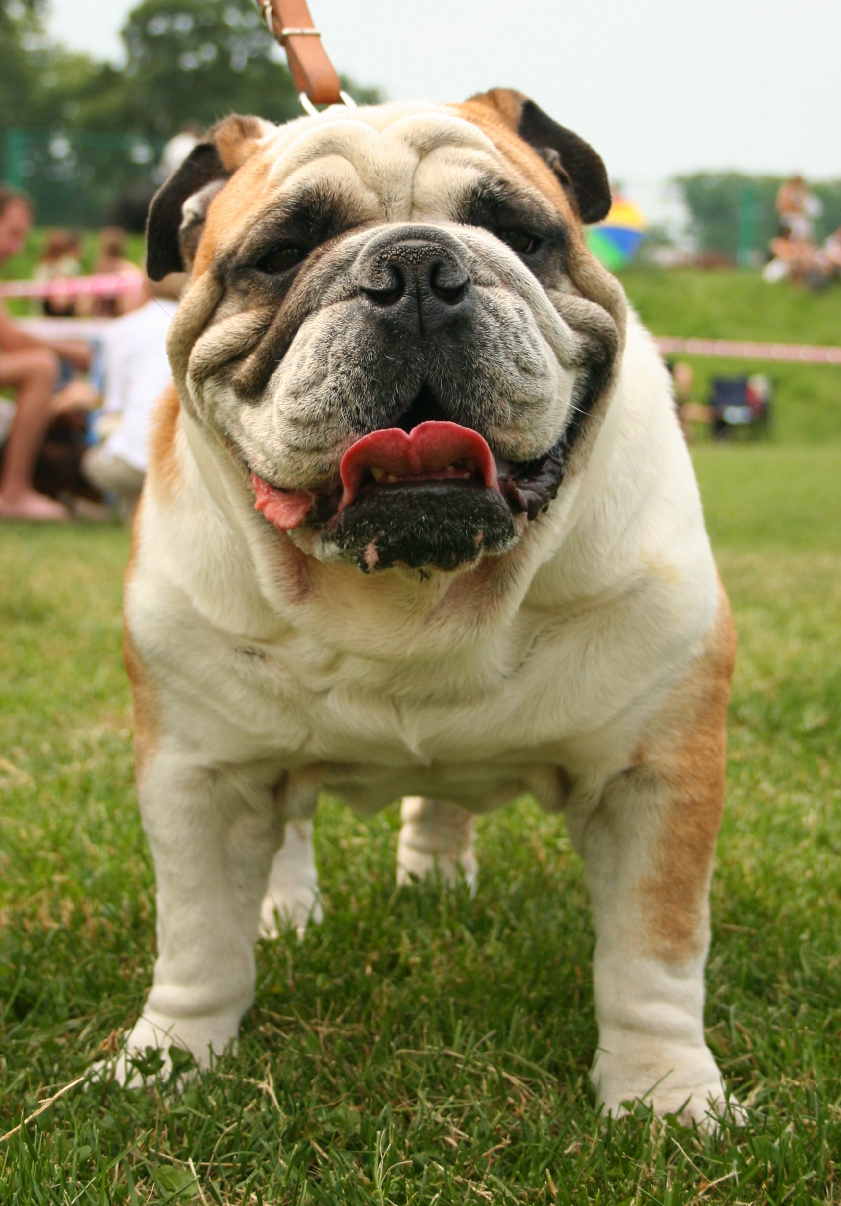 English Bulldog during dog's show in Racibórz,Poland